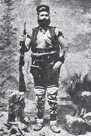 Portrait of IMARO voevoda Ivan Anastasov